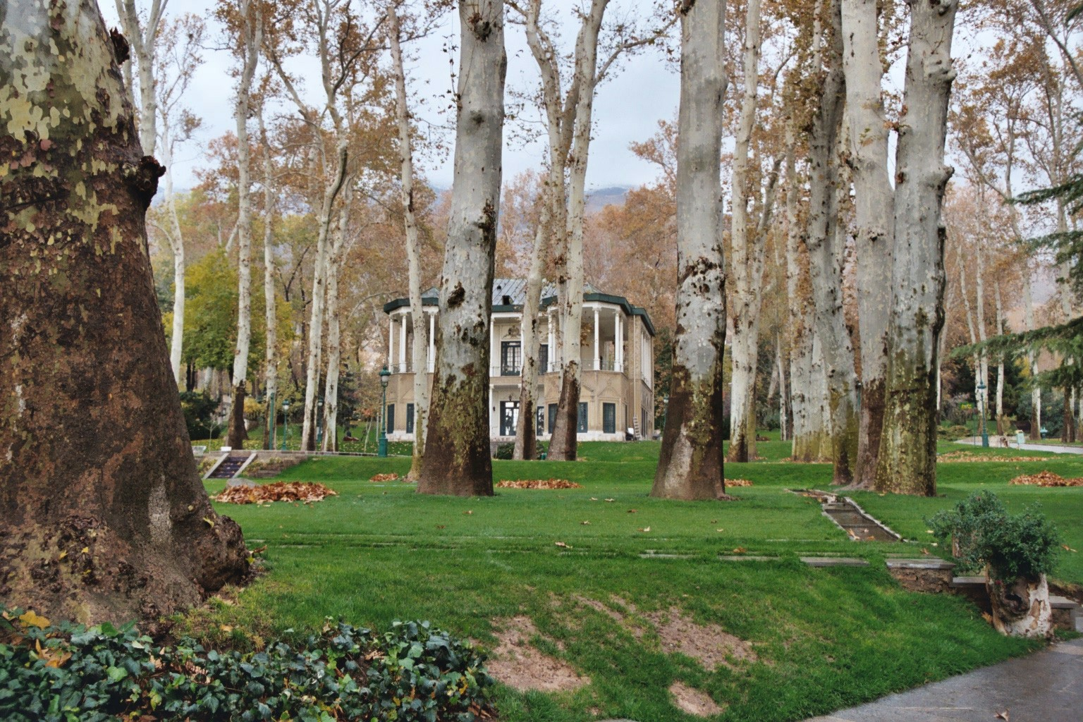 The Ahmad Pavilion and landscape — seen from the garden of the Niavaran Palace complex in Tehran. Example of Qajar era architecture.